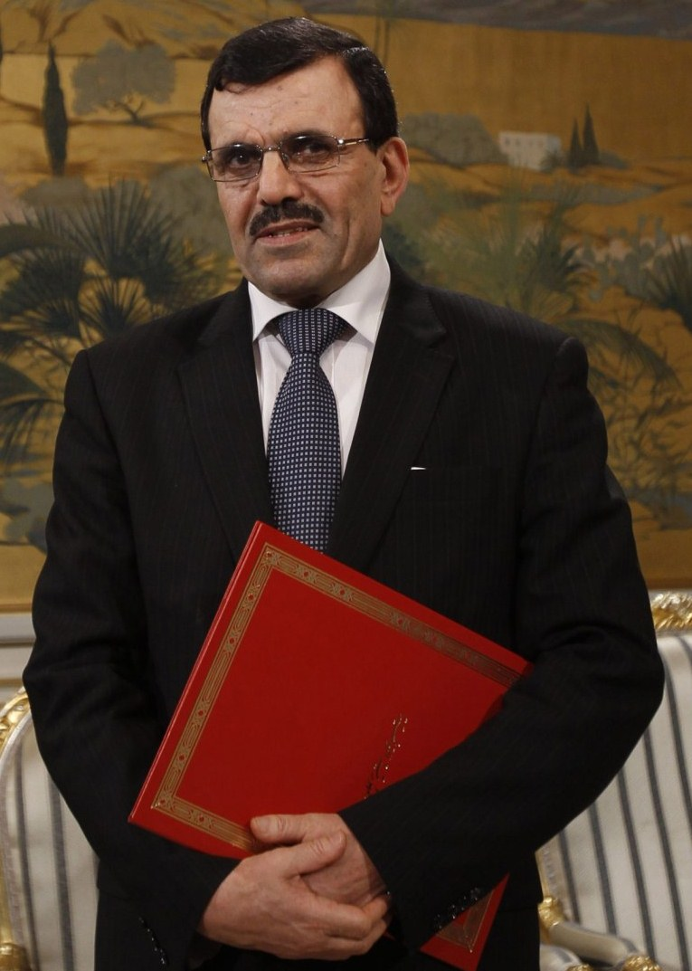 Ali Laarayedh in Carthage palace